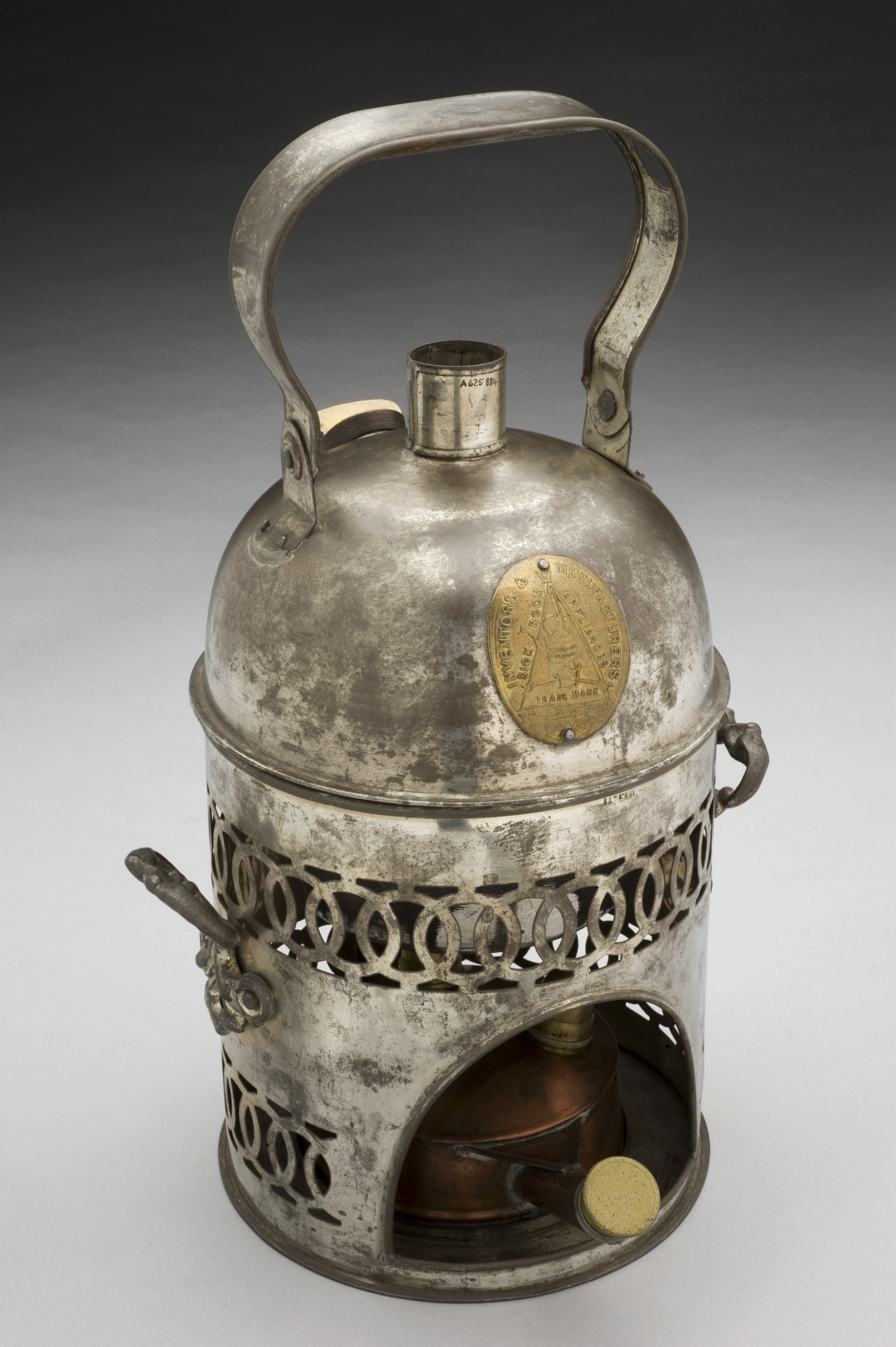 Bronchitis kettle by Allen and Son, 1840-1900. Graduated grey background. Wellcome Images